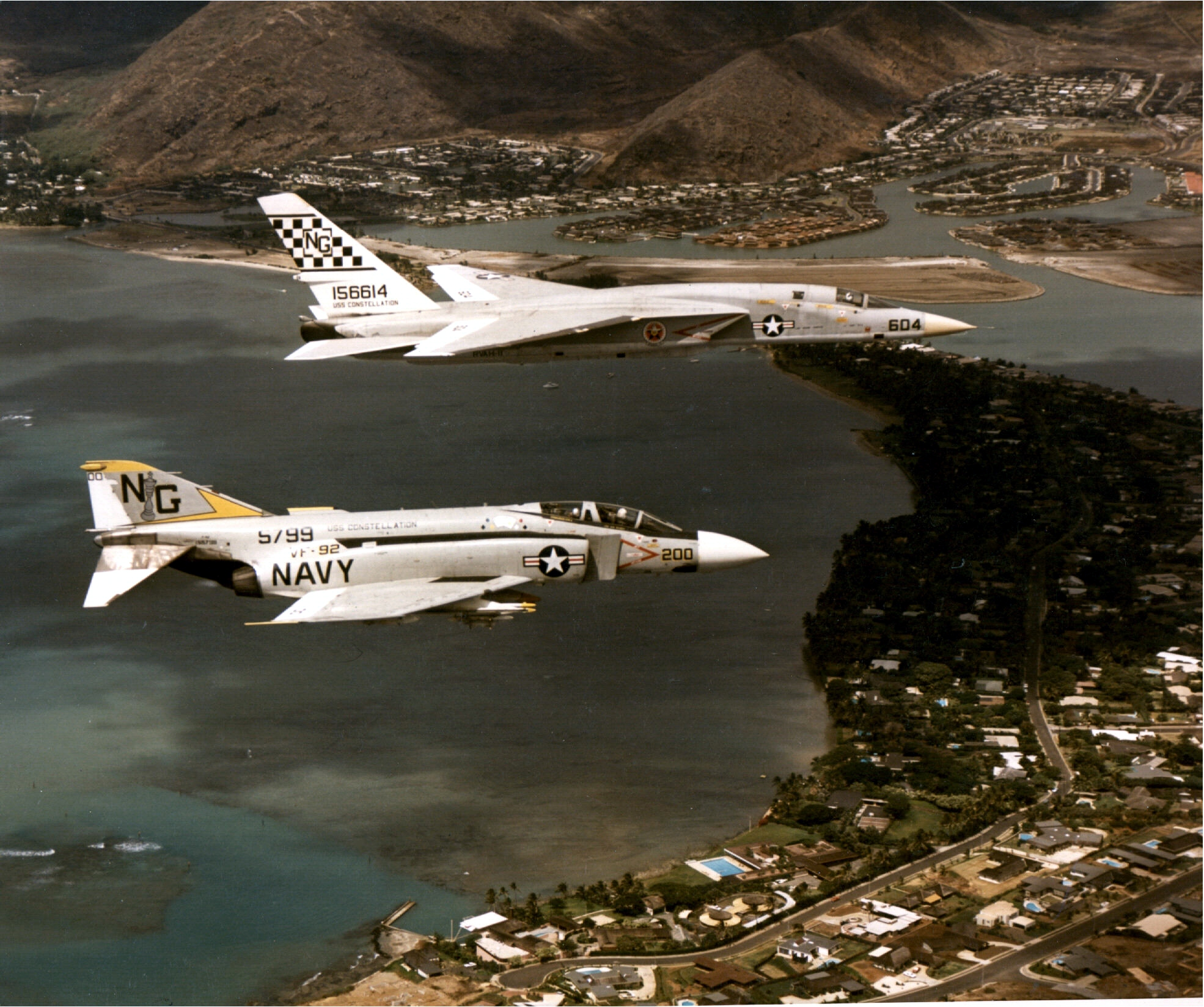 A U.S. Navy McDonnell Douglas F-4J Phantom II aircraft (BuNo 155799) from fighter squadron VF-92 Silver Kings in flight with a North American RA-5C Vigilante (BuNo 156614) from heavy reconnaissance squadron RVAH-11 Red Checkertails over Oahu, Hawaii (USA), in 1971. Both aircraft were working up before a combat deployment to Vietnam as part of Carrier Air Wing 9 (CVW-9) aboard the aircraft carrier USS Constellation (CVA-64) from 1 October 1971 to 1 July 1972.